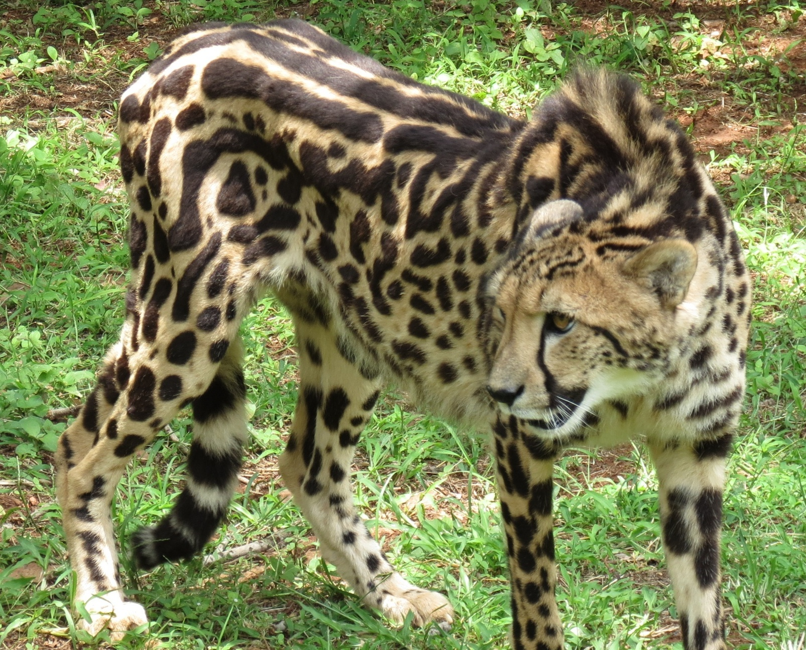 From the Ann van Dyk cheetah farm